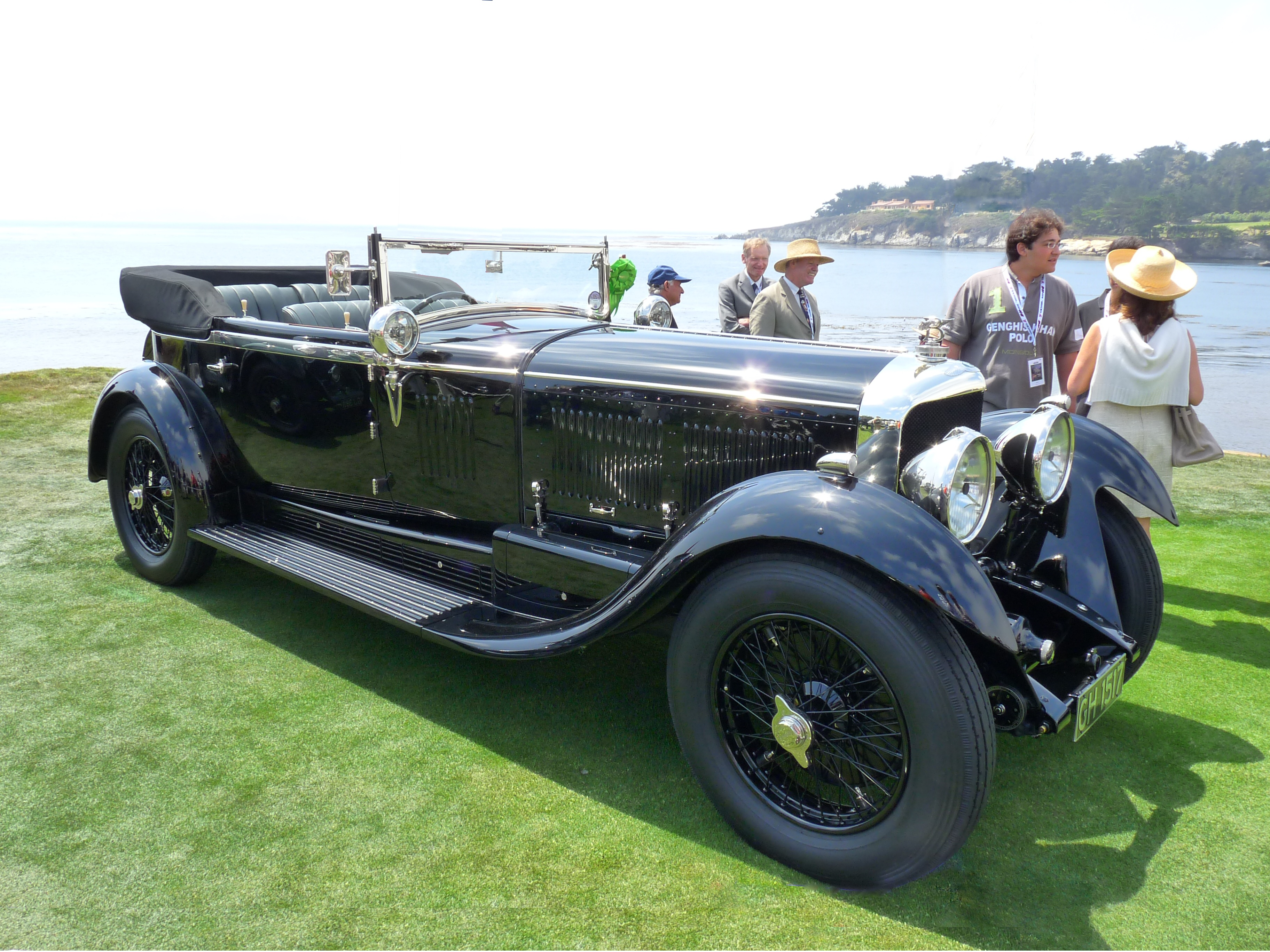 1930 Bentley Speed Six Mulliner drop head coupé.Original coachwork by H J Mulliner remains on the car Chassis LR2766 Engine KR2698 Speed Reg GH 1517 Wheelbase 140.5 inches delivered July 1930 "H.J.Mulliner was responsible for this beautifully proportioned 2-door 2-light drophead coupé and it is one of the very few Speed Sixes with its original bodywork. The Speed Six was a particular favourite of W O Bentley. It was also one of the most successful of the many Bentley models, winning at Le Mans in 1929 and 1930 as well as at Brooklands on numerous occasions and in many other period races. Chassis LR 2776 was first wned by a Miss Bingham in London and in recent years has won awards at many events, including the 1992 Louis Vuitton Concours in Paris. Owner: The Hon. Sir Michael Kadoorie, Hong Kong." noticeboard by car at Pebble Beach, California 2009.